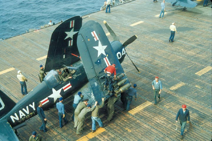 A U.S. Navy Vought F4U-4 Corsair of Fighter Squadron 871 (VF-871) "Griffins" being prepared for a mission in Korea aboard the aircraft carrier USS Essex (CV-9), in 1952. VF-871 was assigned to Air Task Group 2 (ATG-2) aboard the Essex for a deployment to Korea from 16 June 1952 to 6 February 1953.